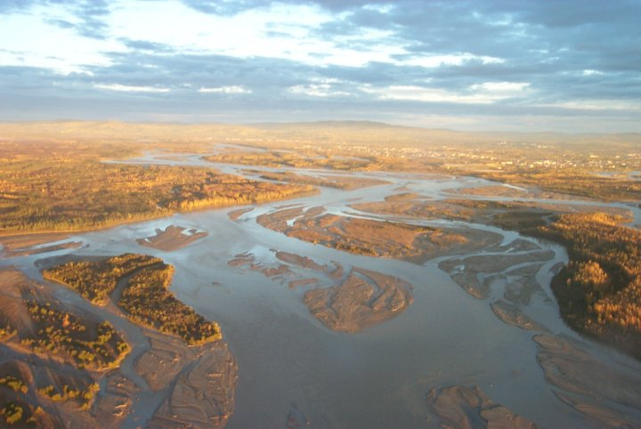 Braided Stream: These streams move tremendous amounts of gravel but usually look low or even empty. (Fairbanks' Tanana River, Sept 15, 2001)